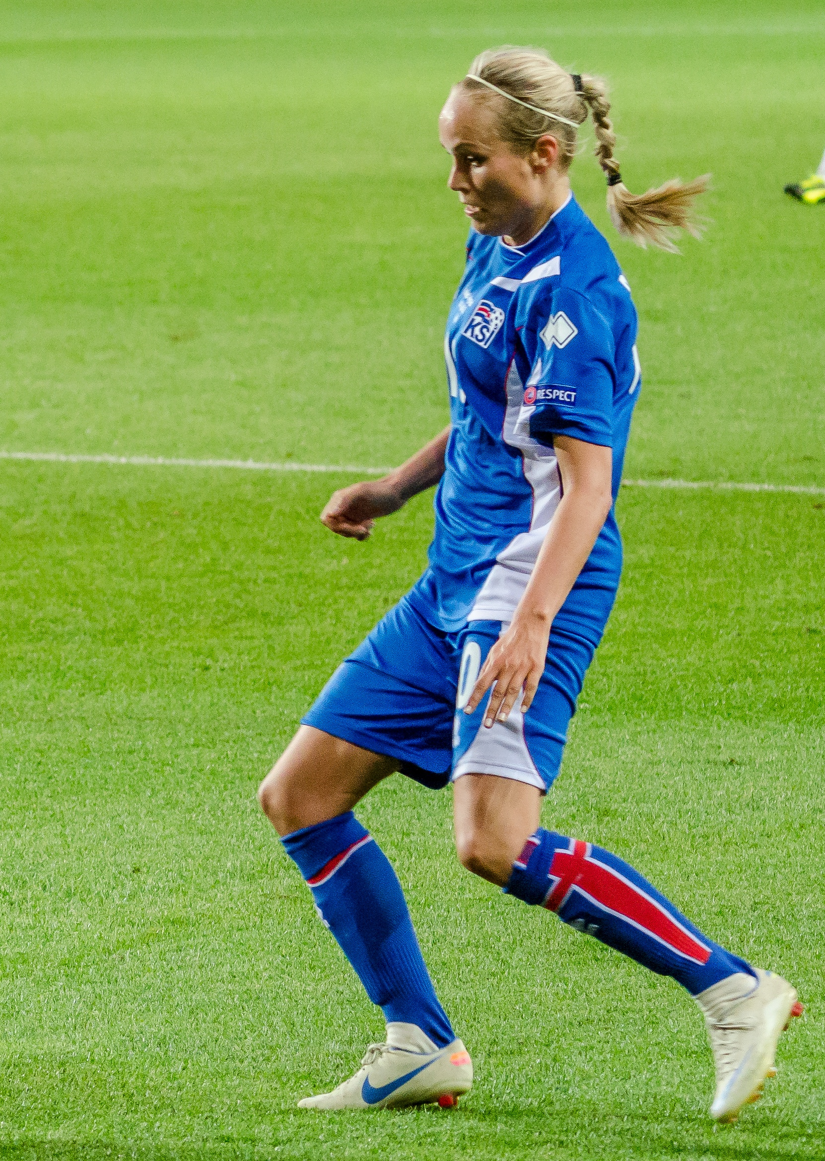 Icelandic football defender/winger Dóra María Lárusdóttir playing a Group stage game against Germany in the UEFA Women's Euro 2013 at Myresjöhus Arena in Växjö.